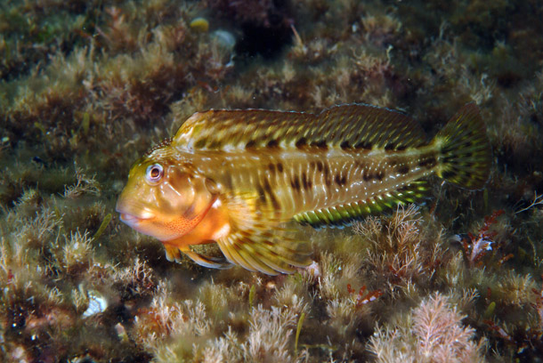 Scartella cristata photographed nearTuscany coasts (Italy). Photo by Stefano Guerrieri.